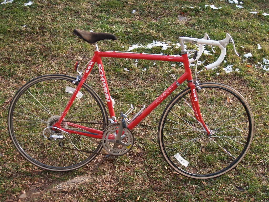 Shot in Centreville,VA